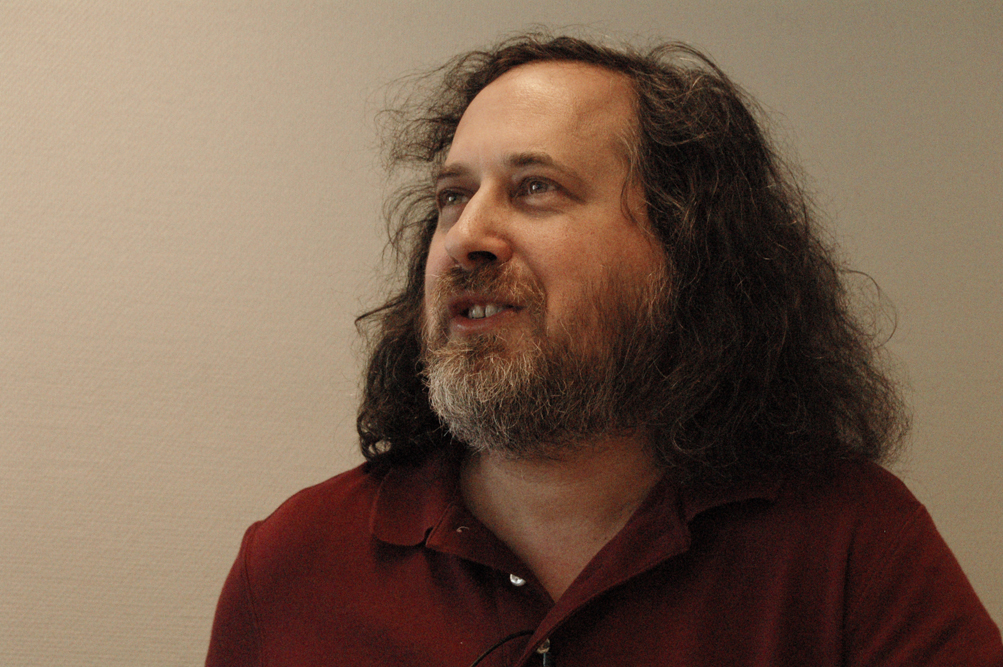 Richard Stallman Founder of GNU Project and Free Software Foundation, father and current maintainer of the One True Emacs.